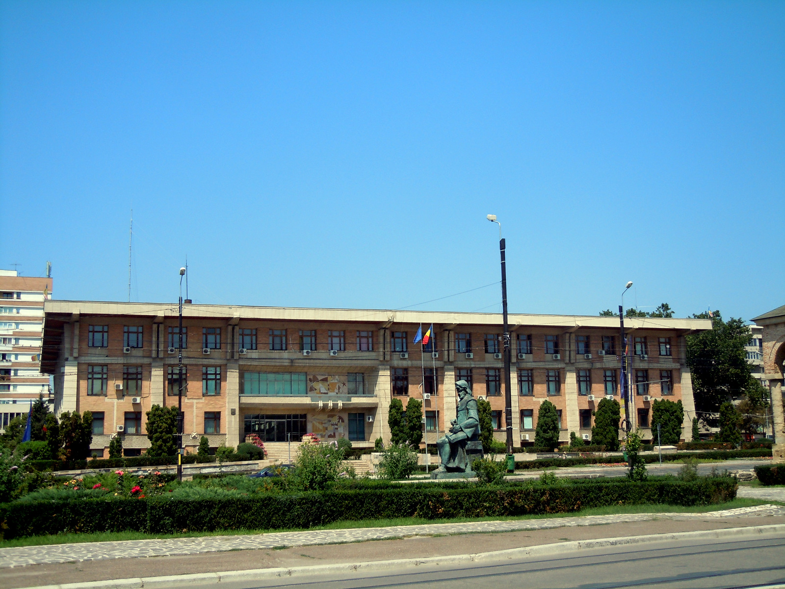 Iaşi , Prefecture Headquarters ,Iaşi, Romania